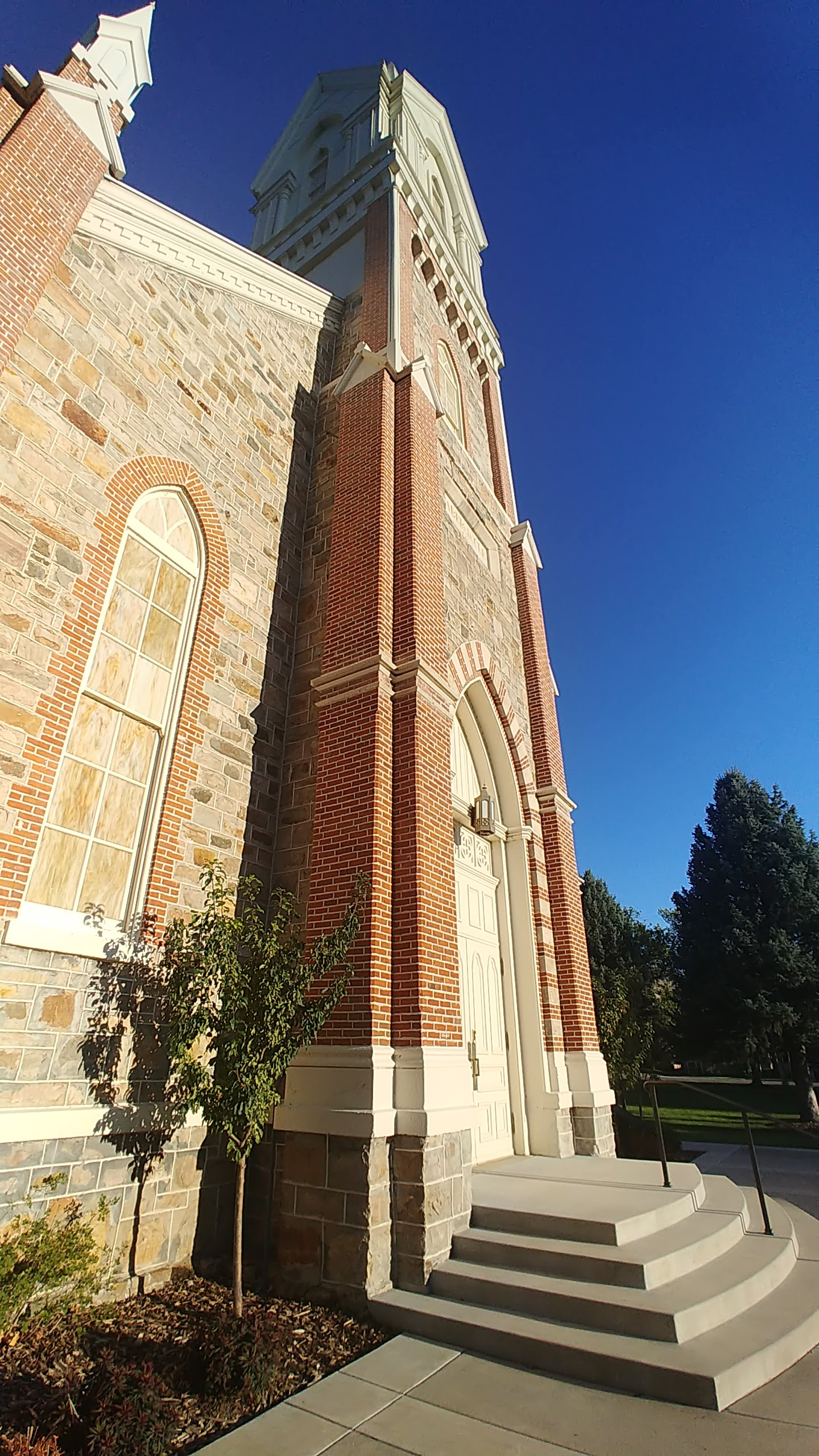 The front side of the building